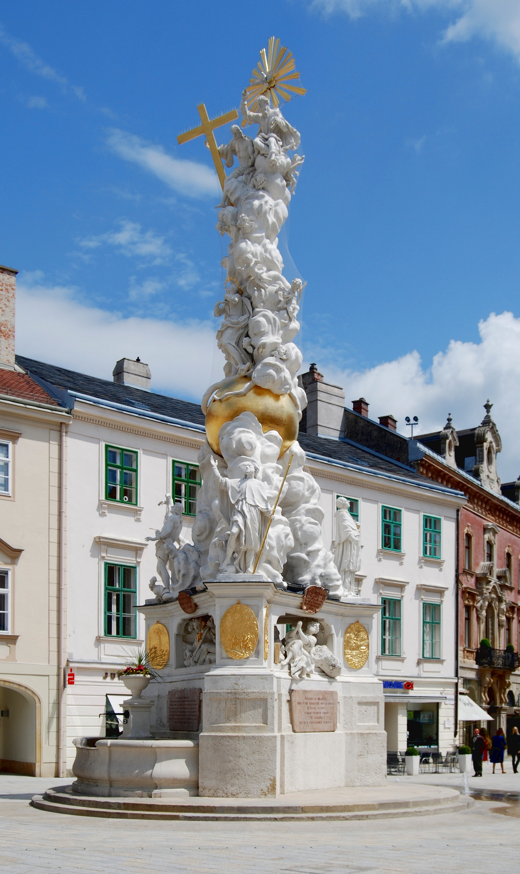 Marian and Holy Trinity column at Baden